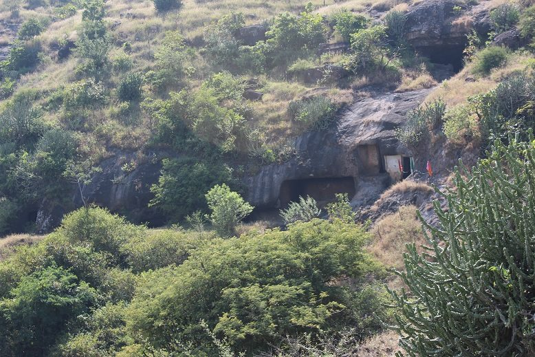 pandavdara caves